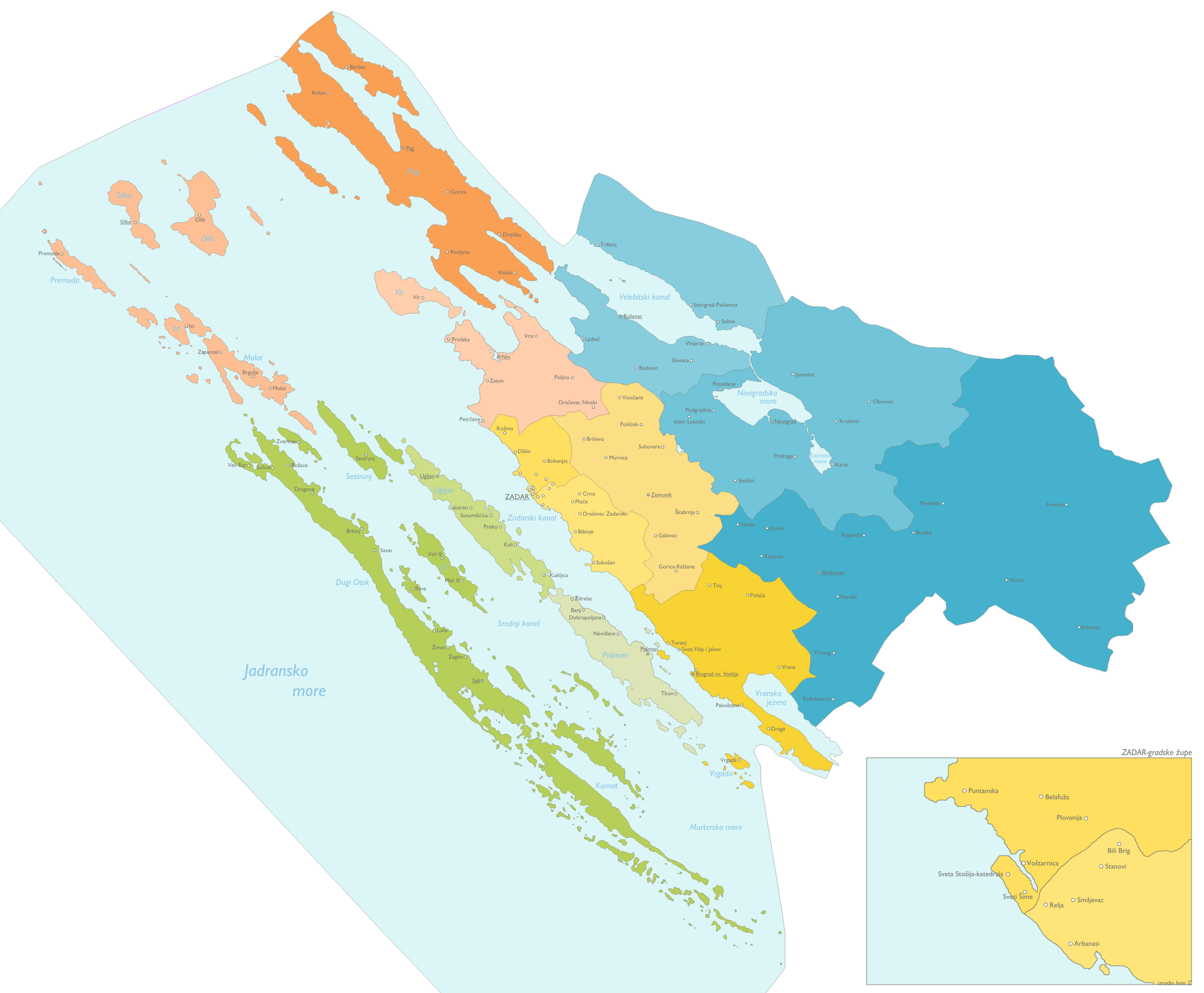 Map of the Archdiocese of Zadar in Croatia